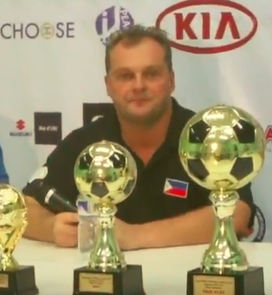 Coach Michael Weiss responds to a question during the press conference after the Peace Cup finals on September 29, 2012 at the Rizal Memorial Football Stadium